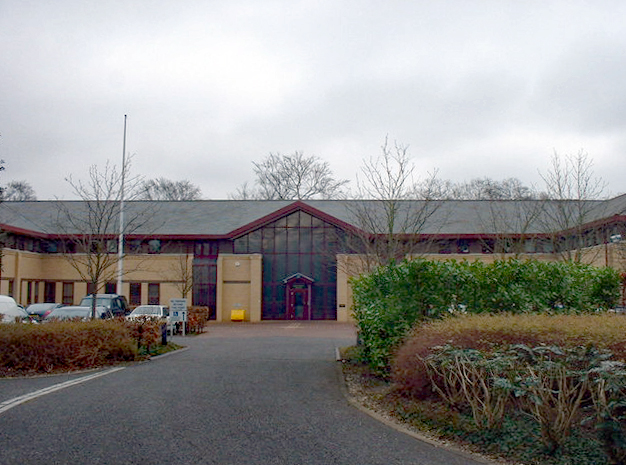 Greenwich House Home of the Royal Greenwich Observatory from 1990 to its closure in 1998. The building is now university offices.